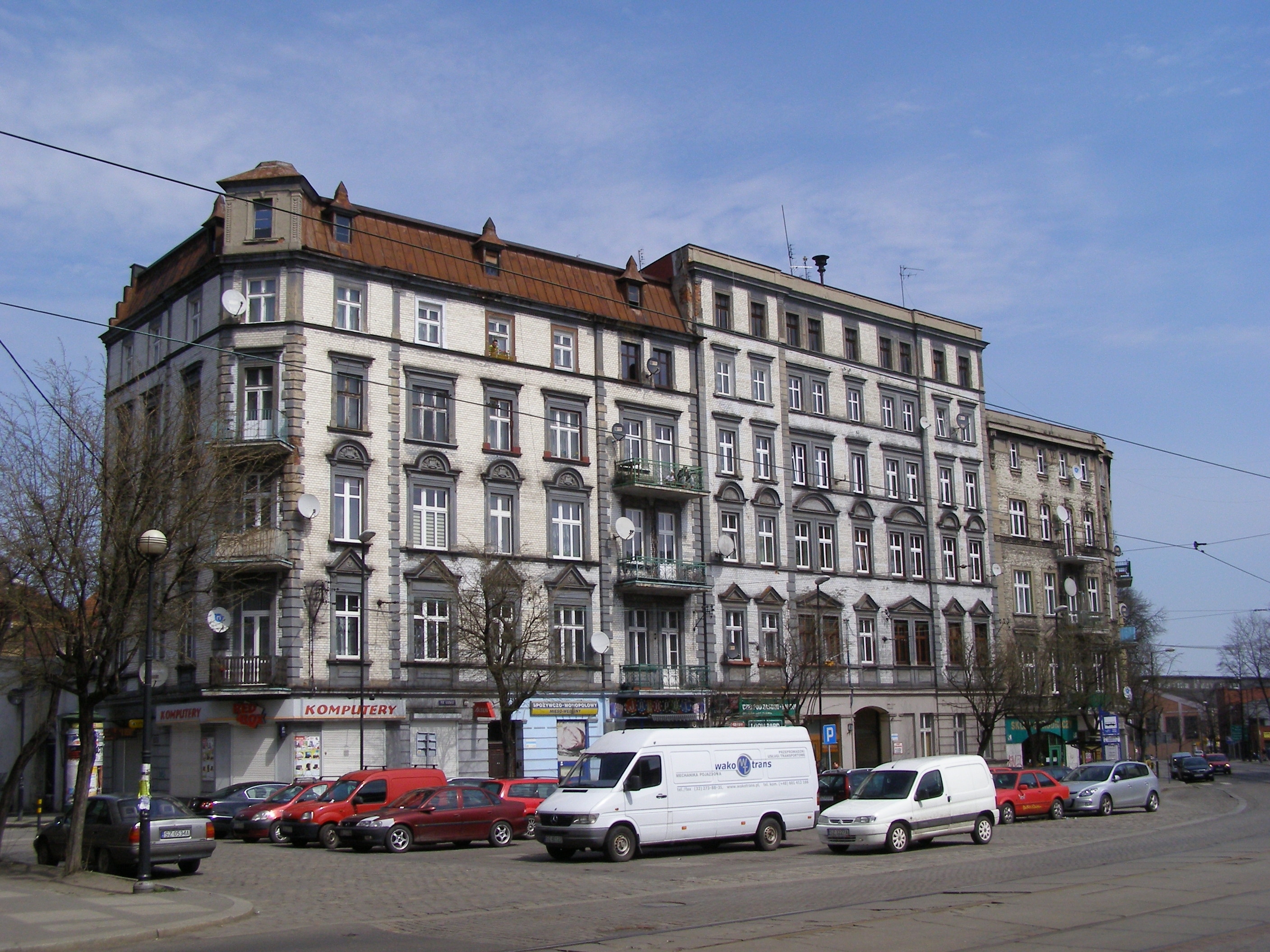 Zabrze - Krakowski sq.